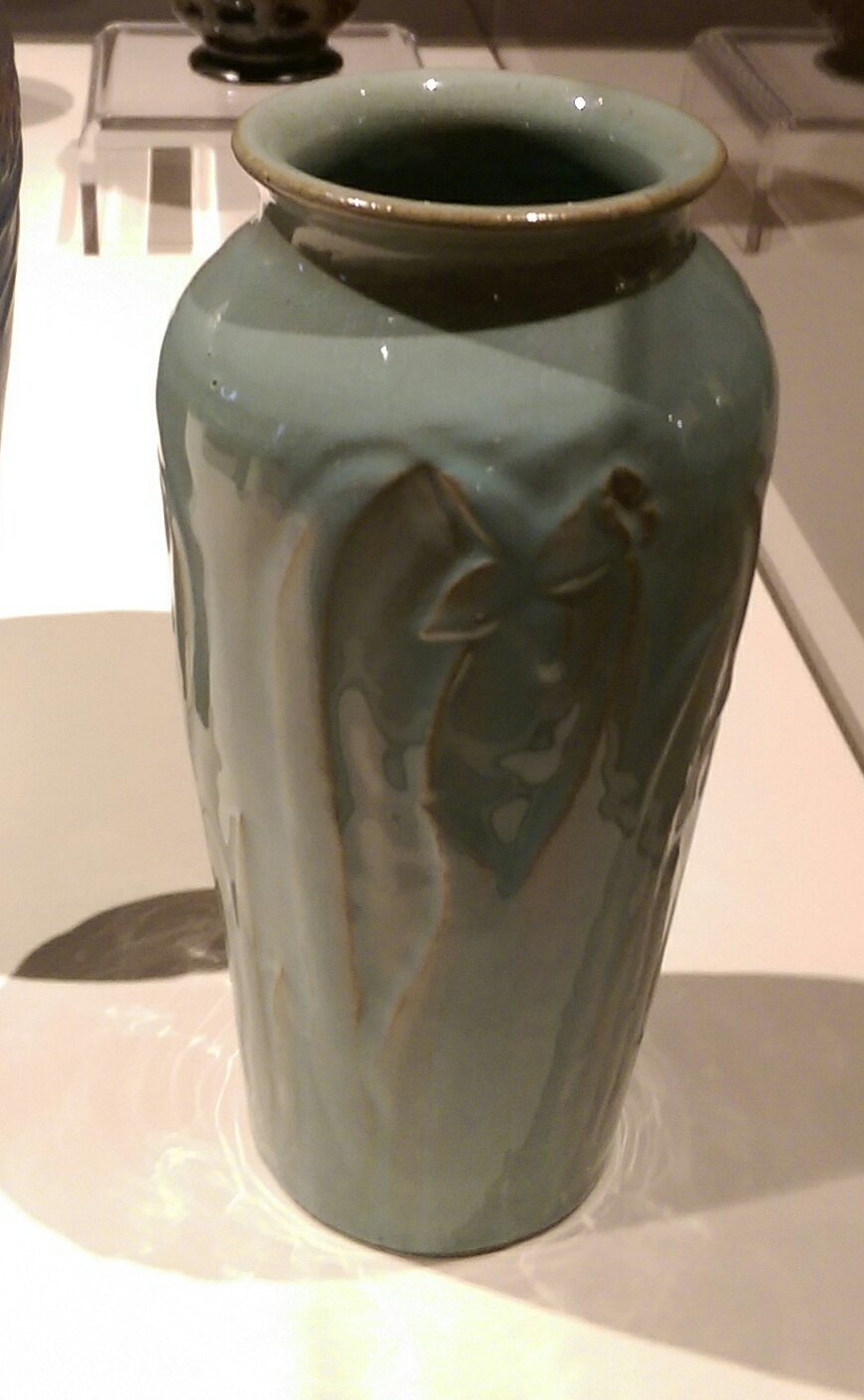 A vase made in the 1910s by Arequipa Pottery in Fairfax, California. In the collection of the Crocker Museum in Sacramento, California. Photo by Jim Heaphy.